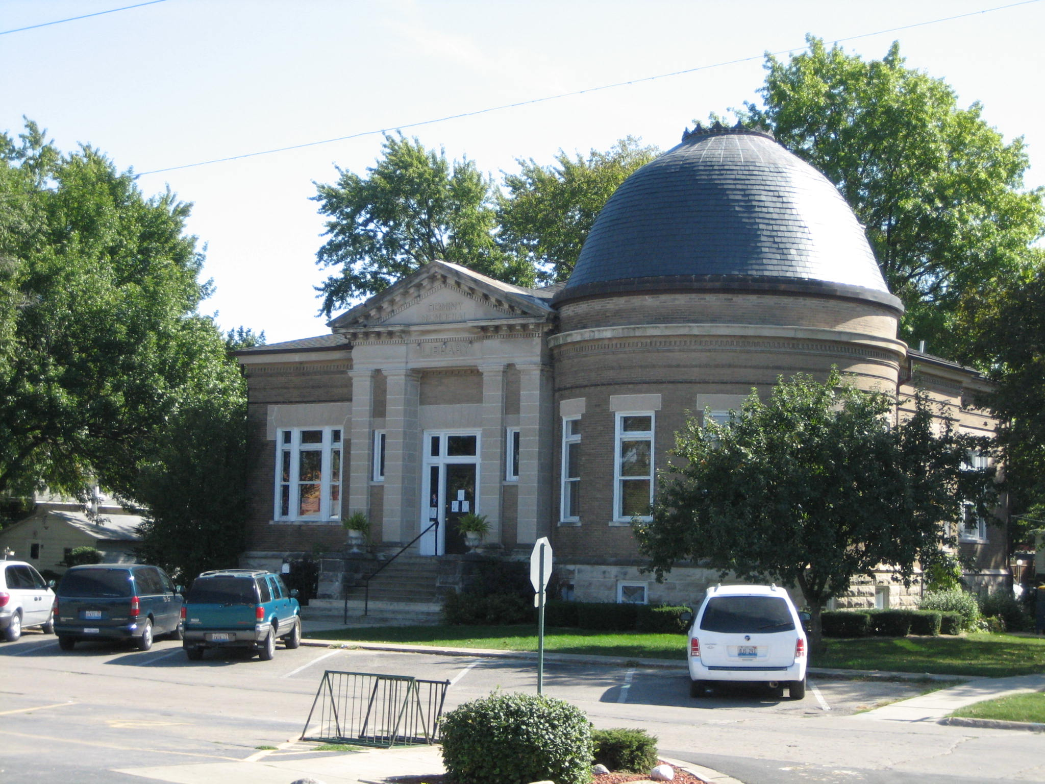 Downtown, Fairbury, Illinois, USA.